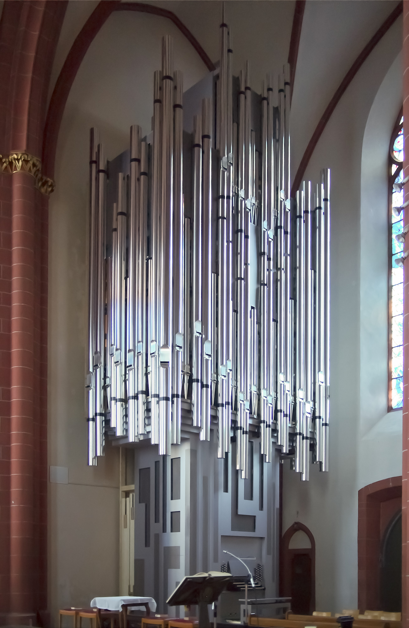 The new pipe organ in St. Stephan, Mainz which was manufactured by Klais (Orgelbau Klais, Bonn).